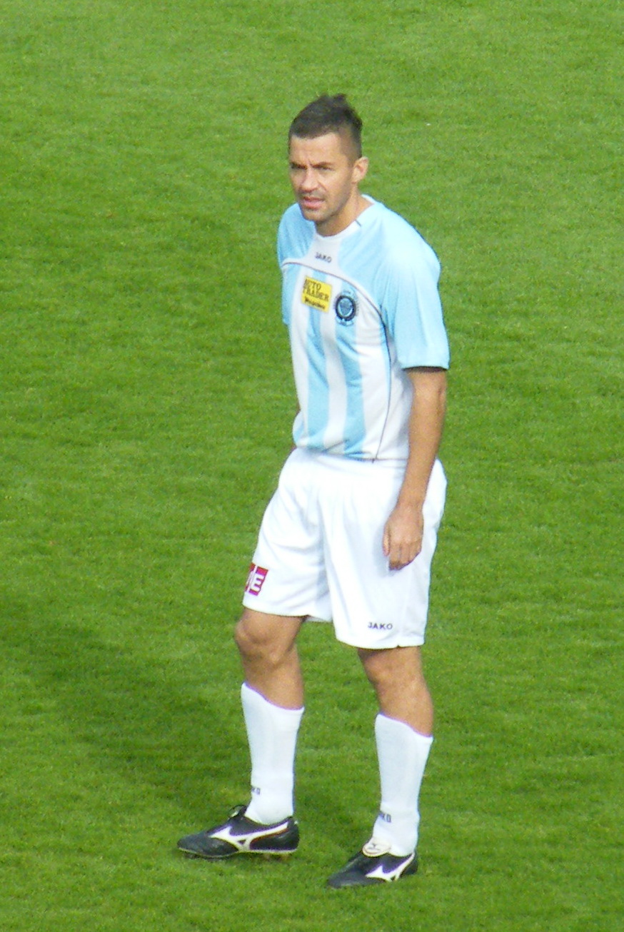 János Mátyus Hungarian football player